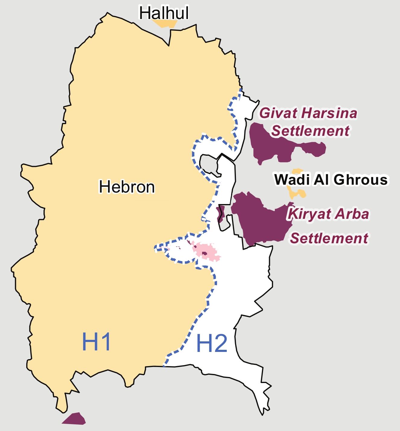 Hebron redeployment, resulting from the "Protocol Concerning the Redeployment in Hebron" in 1997.